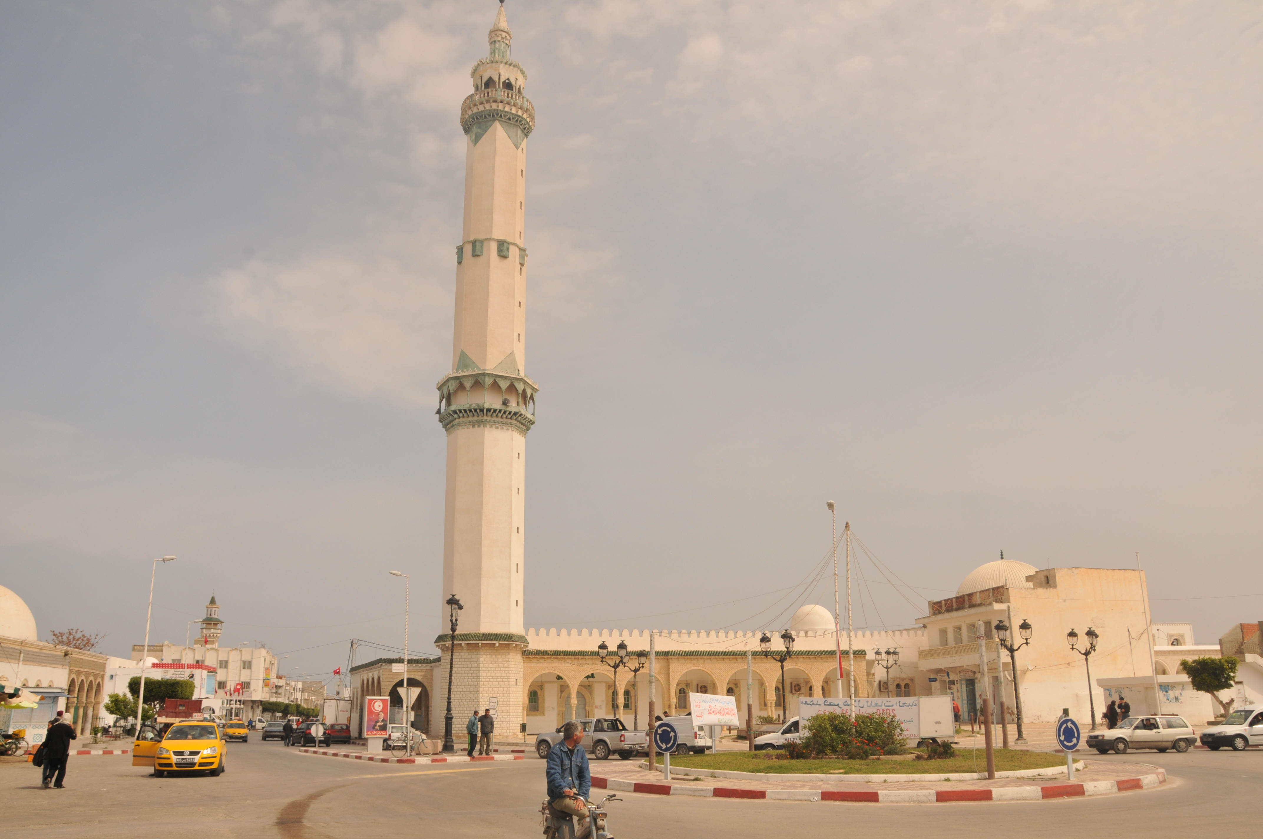 Mosque of Teboulba